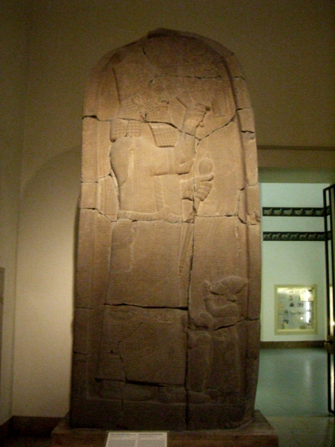 Esarhaddon returned after defeating Taharqa at Memphis; Taharqa's son, the prince is shown in bondage on this stele. Shows the cuneiform story, (over-inscribed on the scene). The victory was from battle no. 2, 671 BC. Battle no. 1 was won by Taharqa in 674 BC.(see Victory stele of Esarhaddon over Taharqa-671 BC)